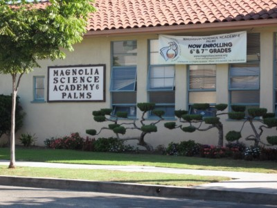 Front view of Magnolia Science Academy 6